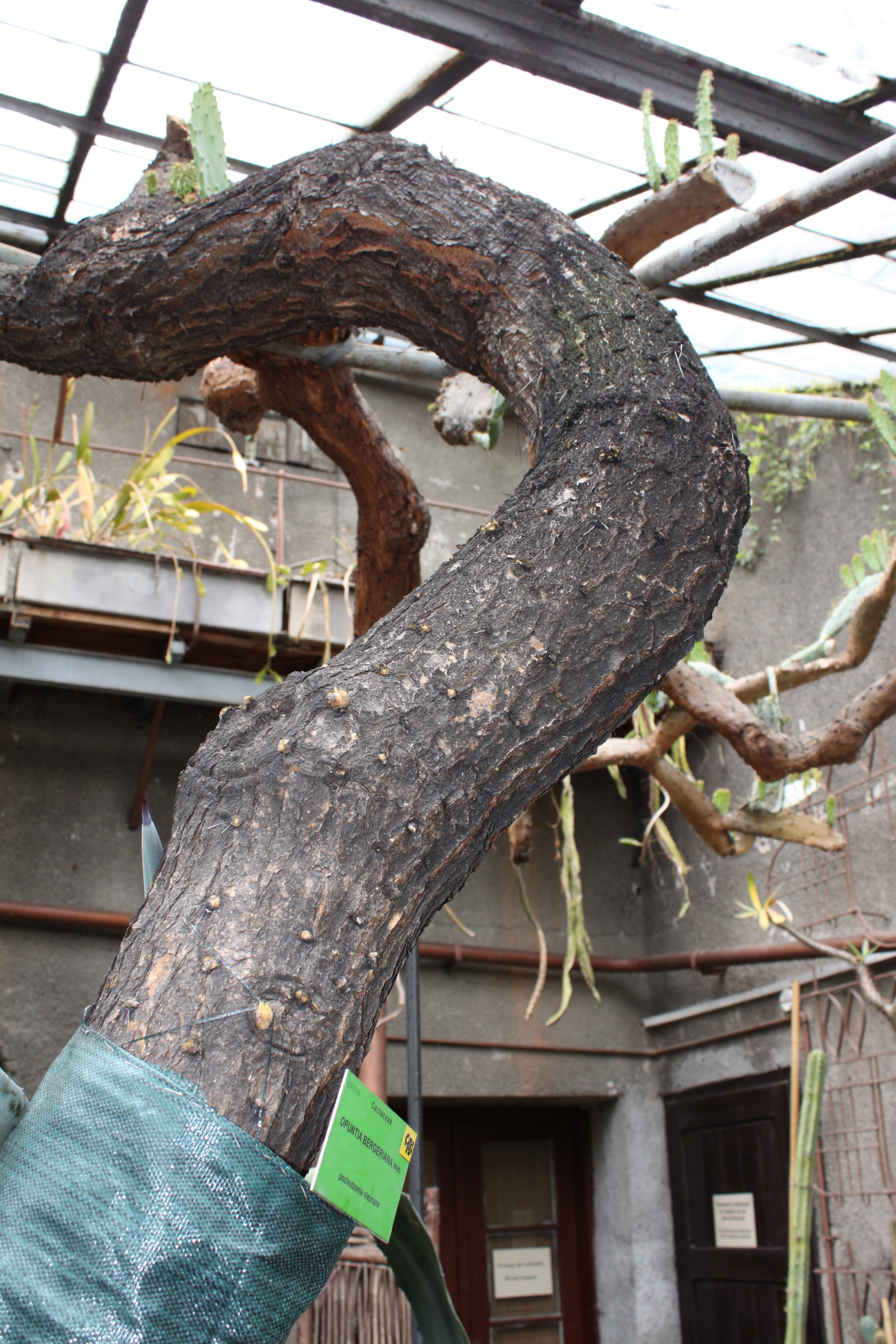 Opuntia elatior bark (under glass) in Botanical Garden in Wrocław